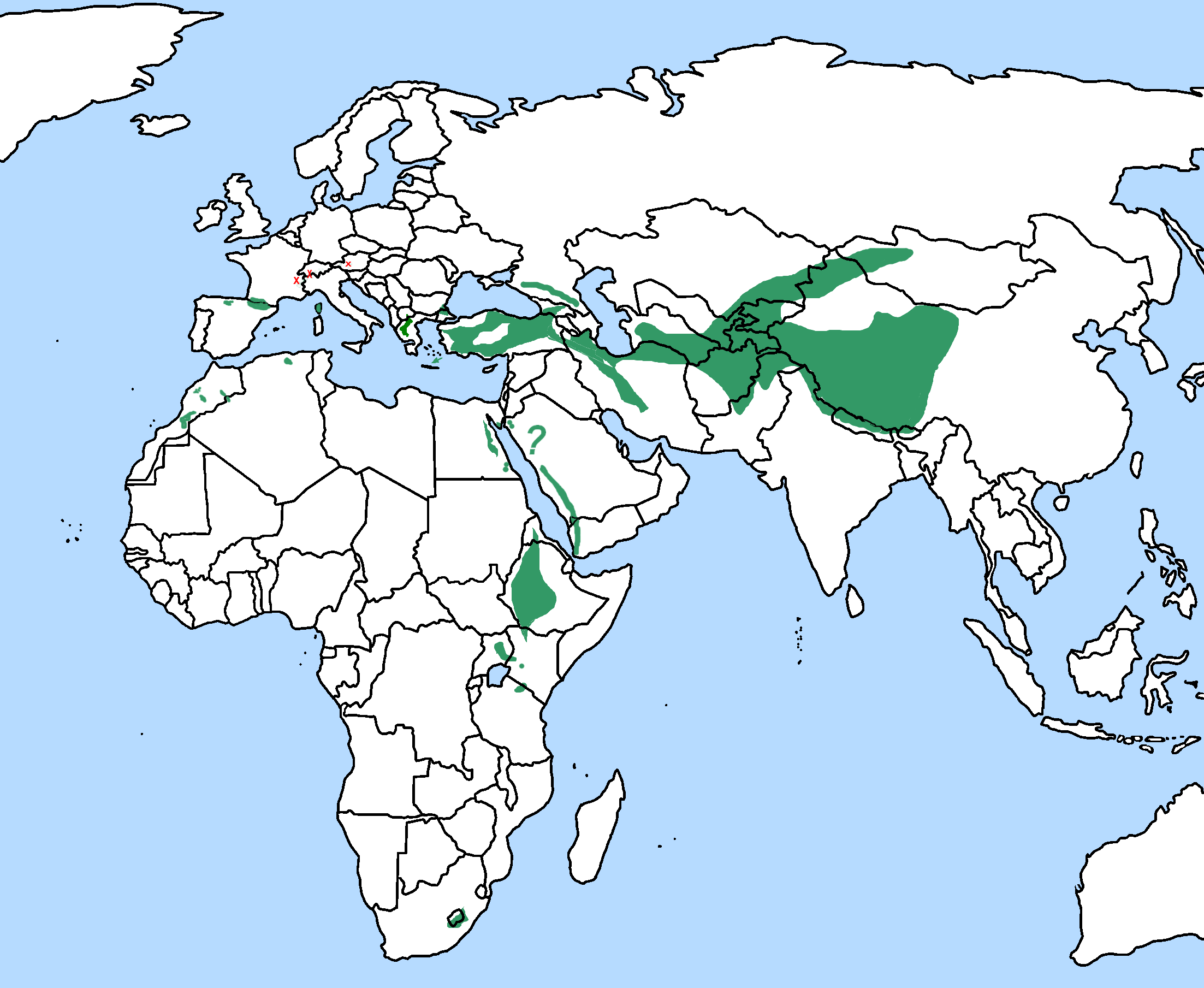 author is ulrich prokop Scops 14:53, 12 February 2006 (UTC) main source: ferguson-lees et al.:raptors of the world. helm-london 2000; p. 414. نمتع8عخ8هع8عغ7886غ87غه